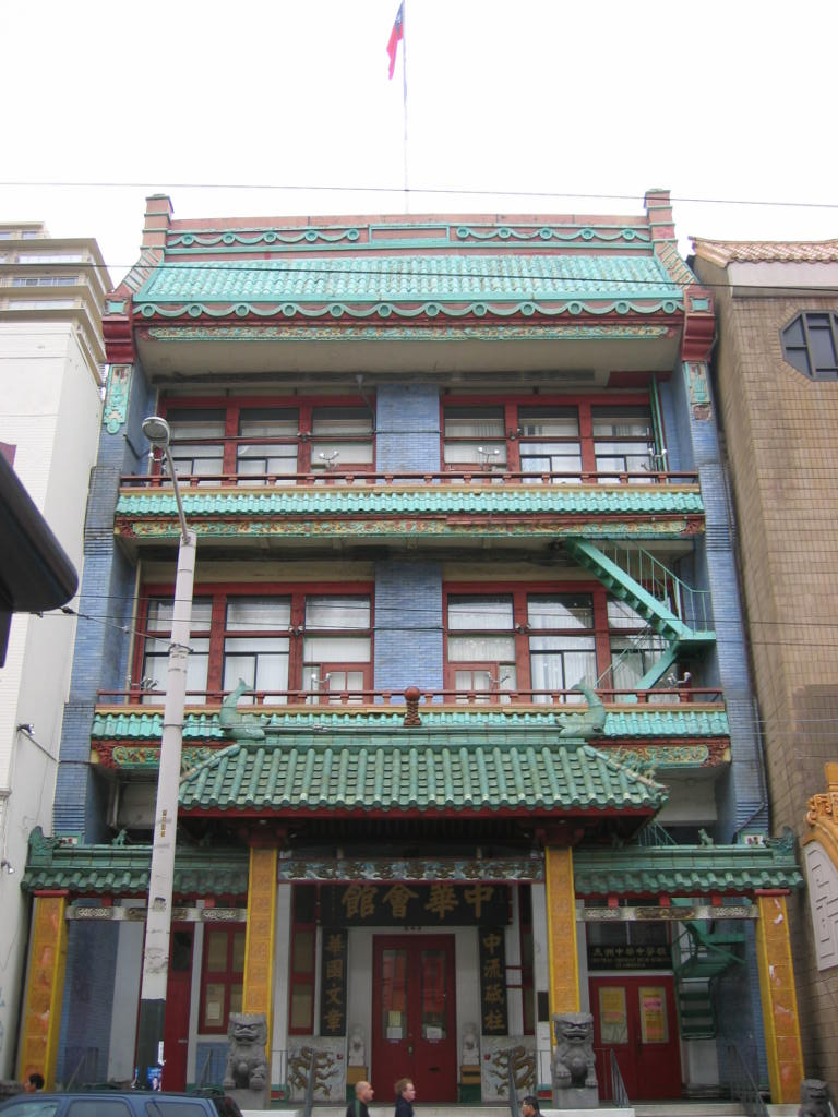 Headquarters of the Chinese Six Companies in San Francisco, Chinatown.